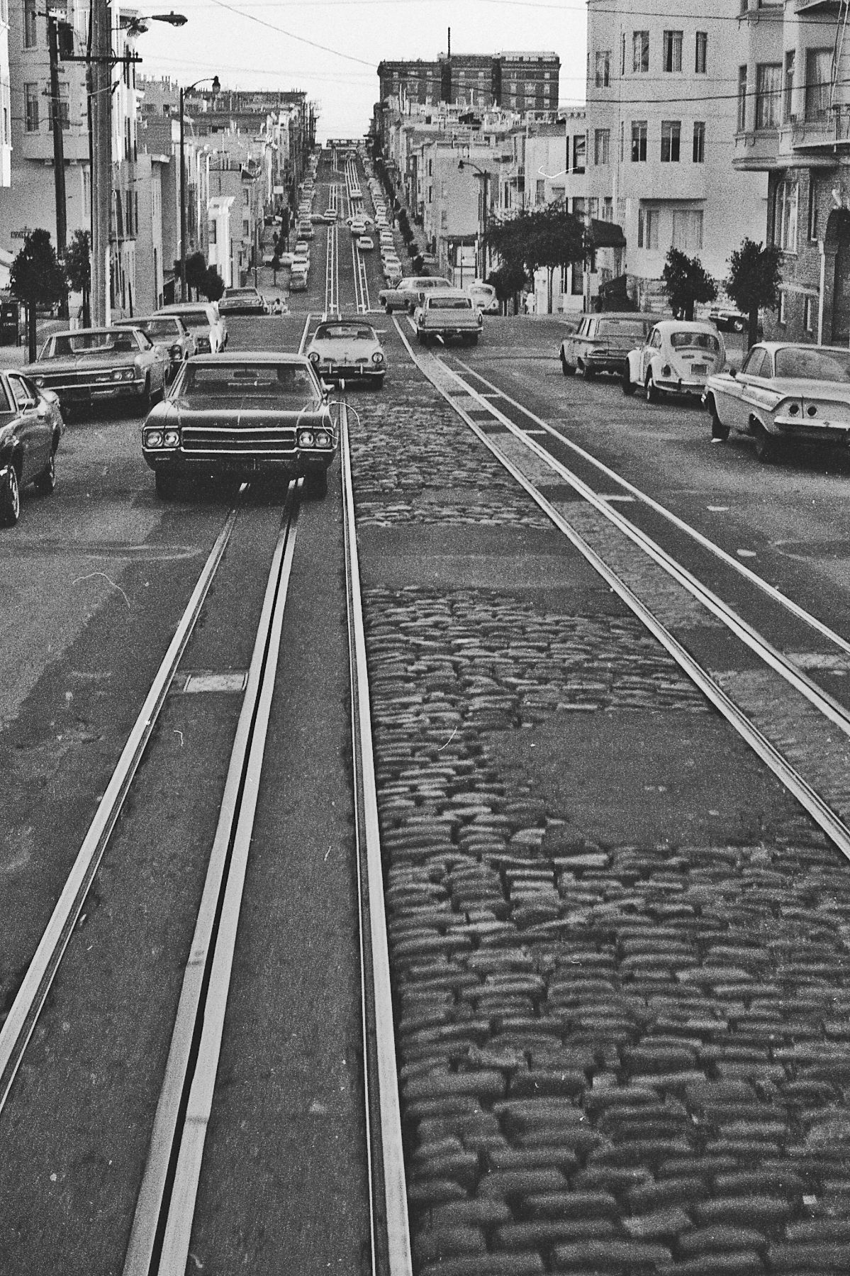 Street in San Francisco showing the cable-car tracks and slot where the grip enters beneath the street surface to grab the moving cable. Other information Photo by George Garrigues.